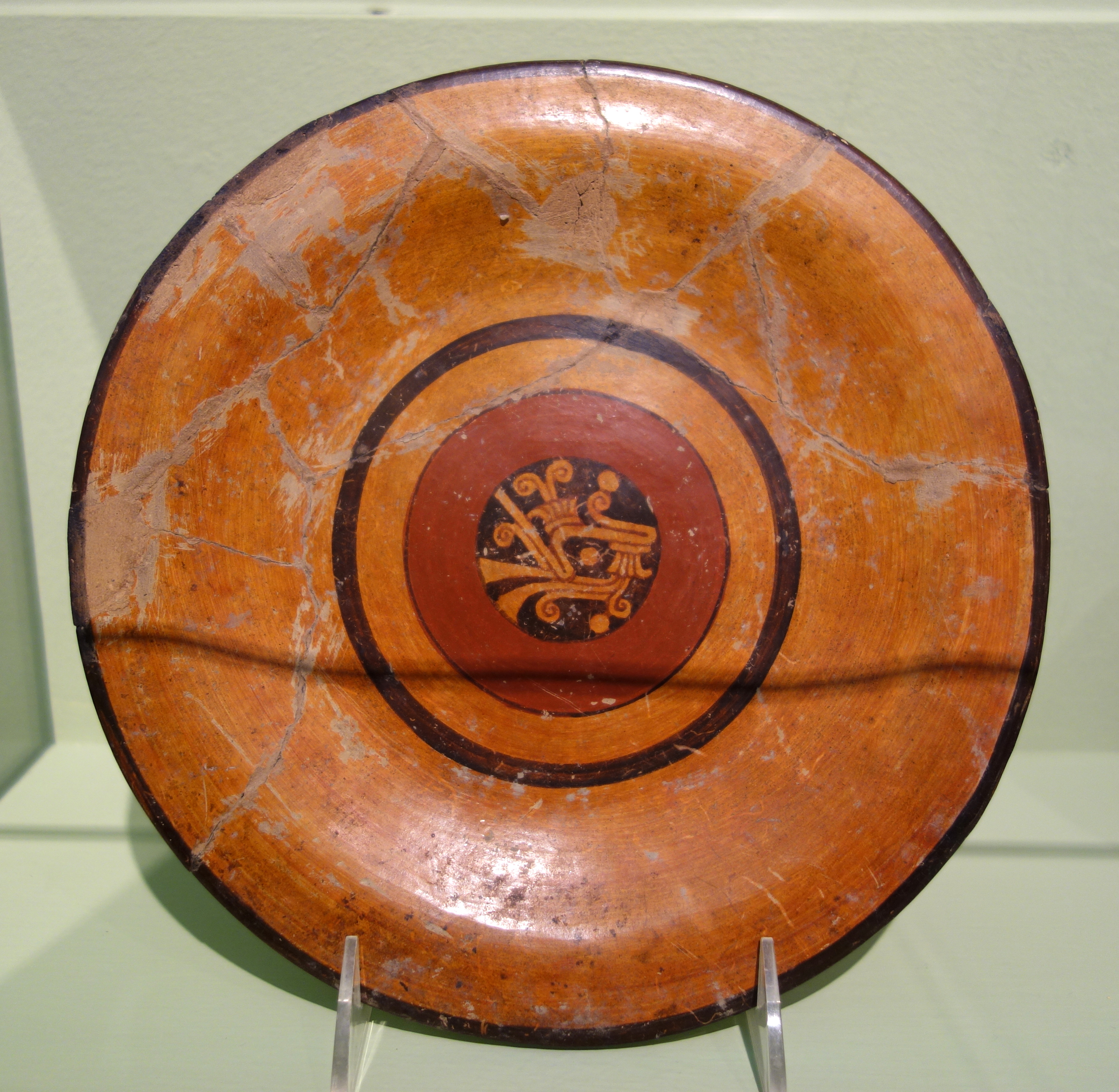 Exhibit in the Fitchburg Art Museum, Fitchburg, Massachusetts, USA. This artwork is old enough so that it is in the public domain.